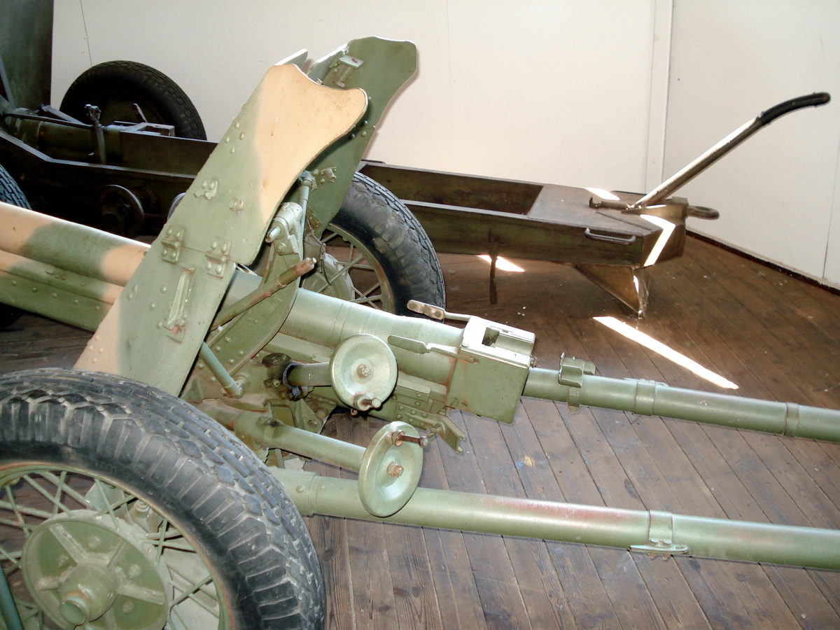 Soviet 45 mm M1932 anti-tank gun, displayed in Parola Museum. It is not clear whether this is the correct designation for this gun. The museum caption for it is shown here. Source: Photo by me, User:Balcer.